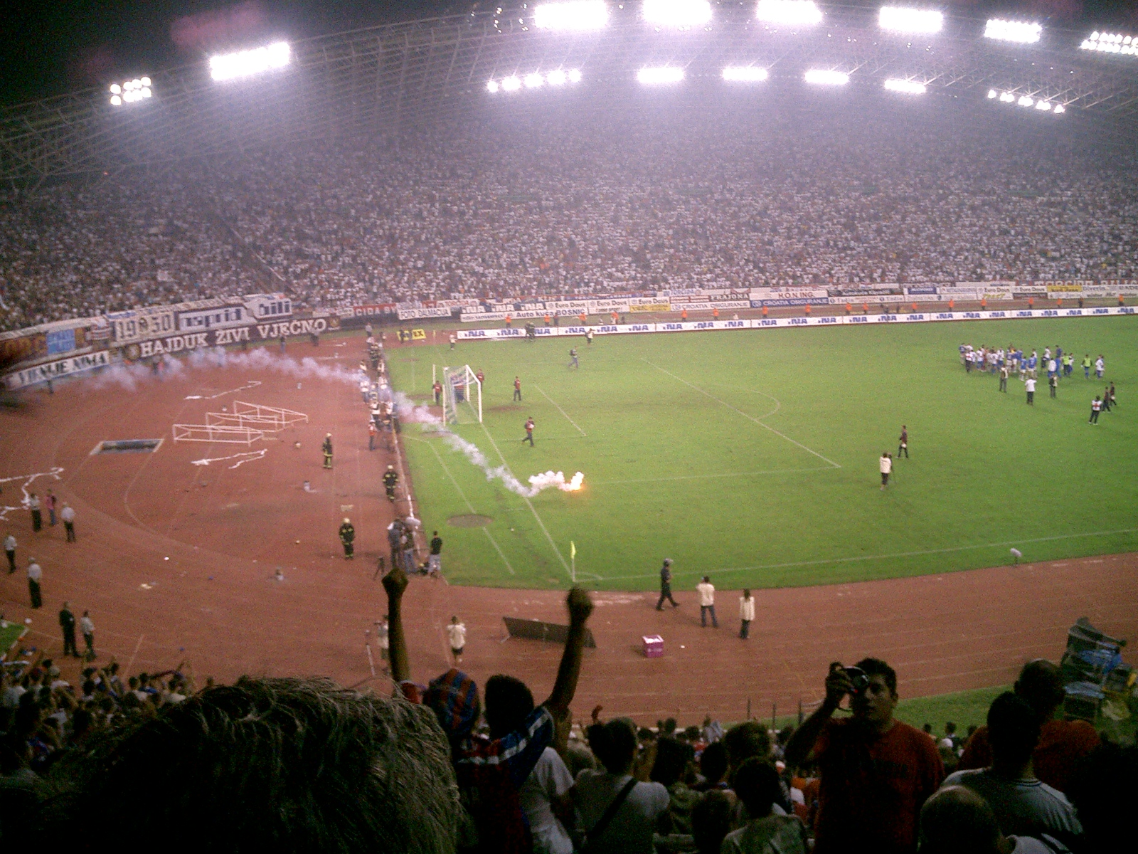 End of the match between Hajduk Split - Dinamo Zagreb. 2-2 after very rough game that saw Hajduk Split ending with ten players at the end.